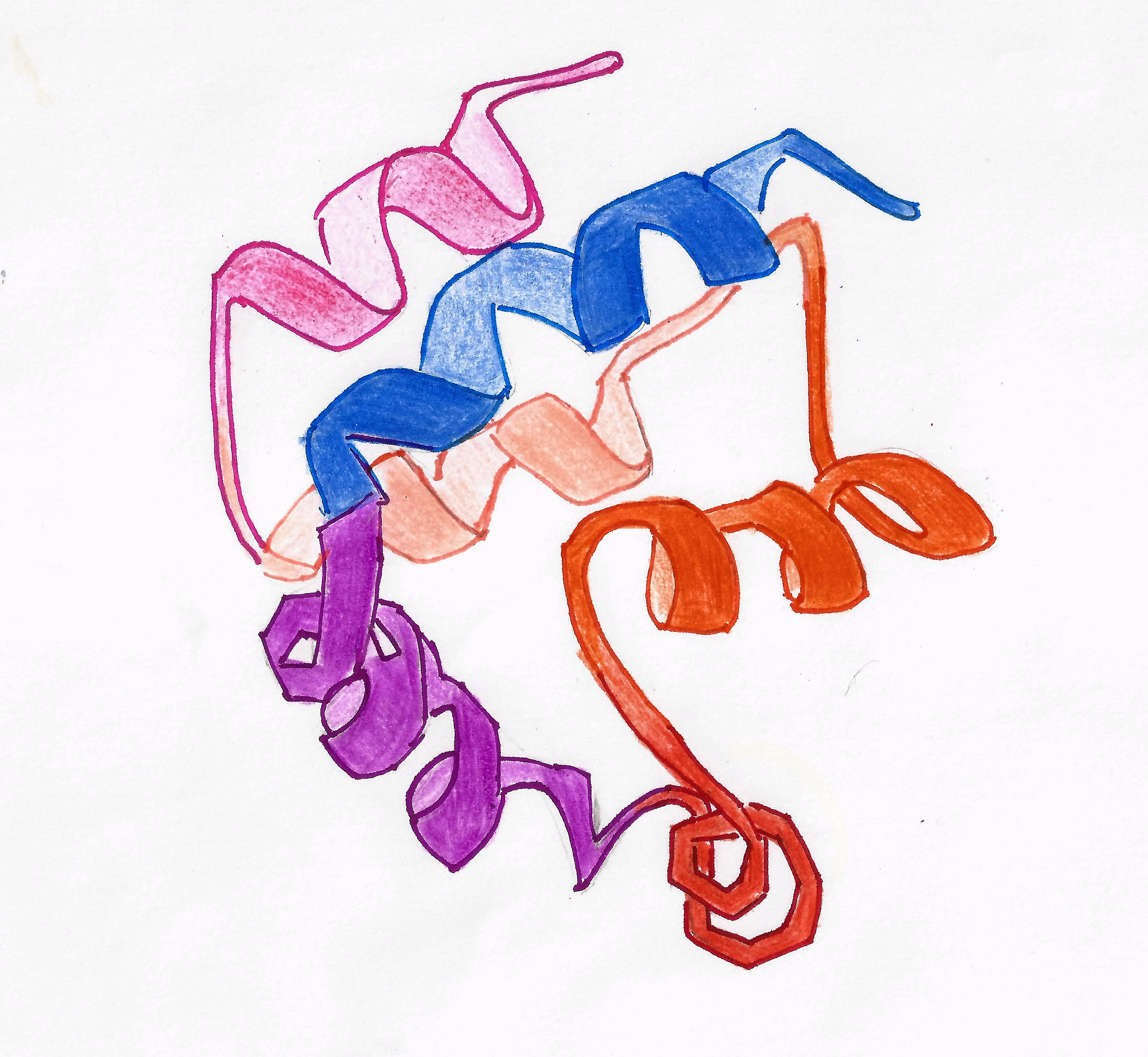 The ribbon diagram of the DED shows it's structure in de FADD protein